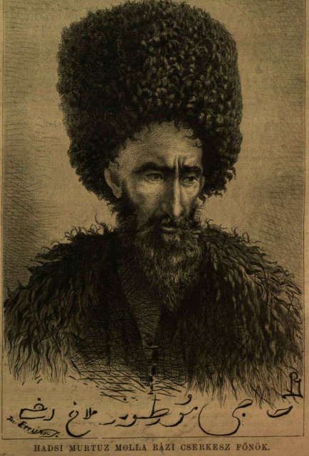 Cherkess leader